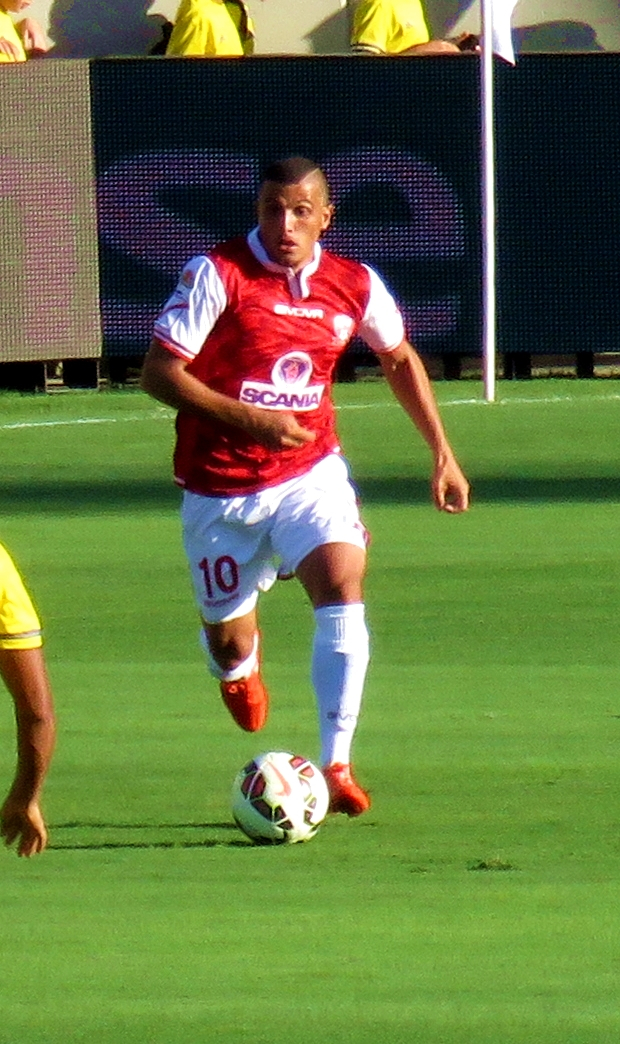 Maccabi Tel Aviv VS. Bnei Sakhnin 22/08/2015